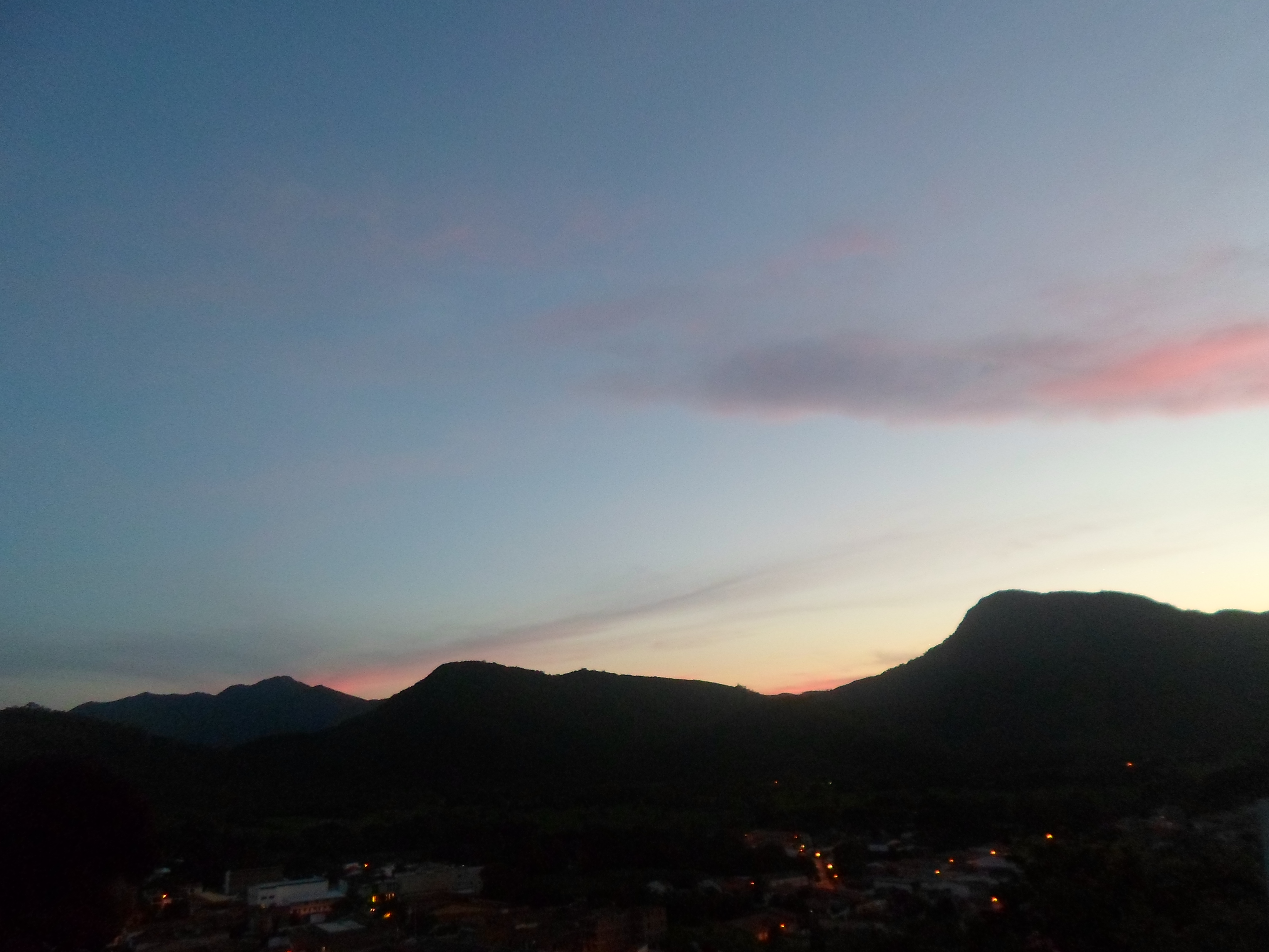 Sunset in redenção